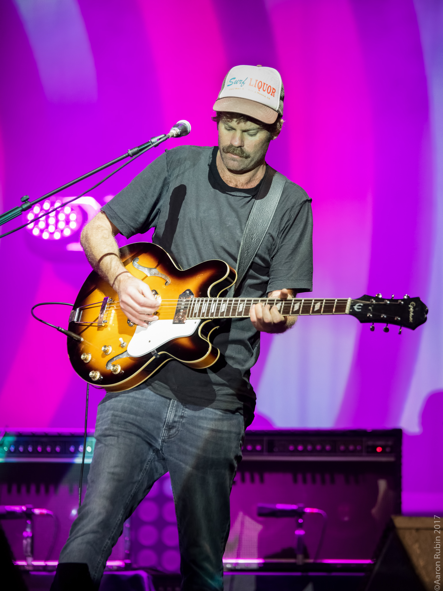 Neil Halsted of Slowdive at the Fox Theater in Oakland, California 2017.